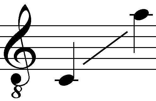 Range of a tenor voice